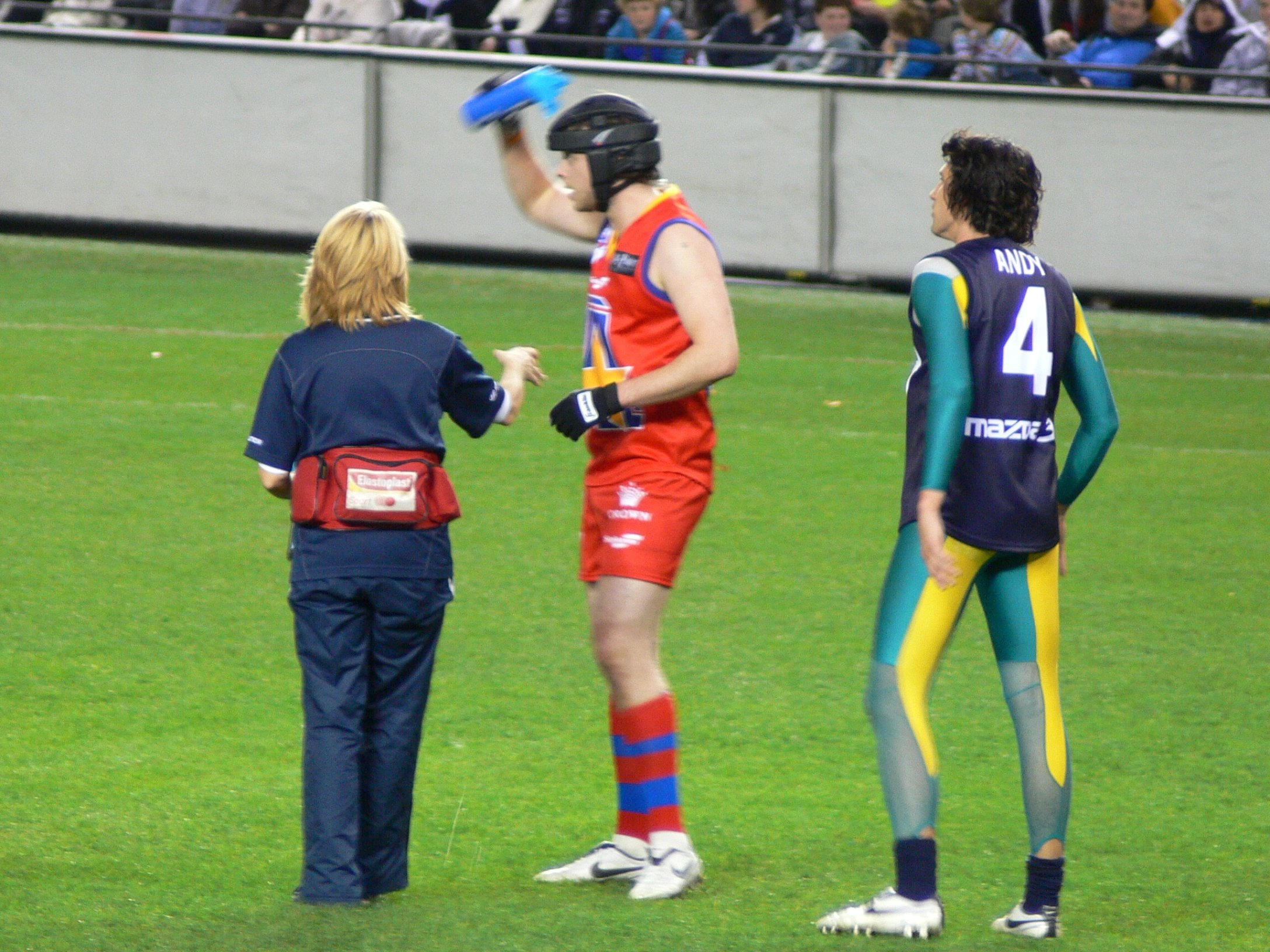 Hamish and Andy mucking around early in the 2008 EJ Whitten Game.